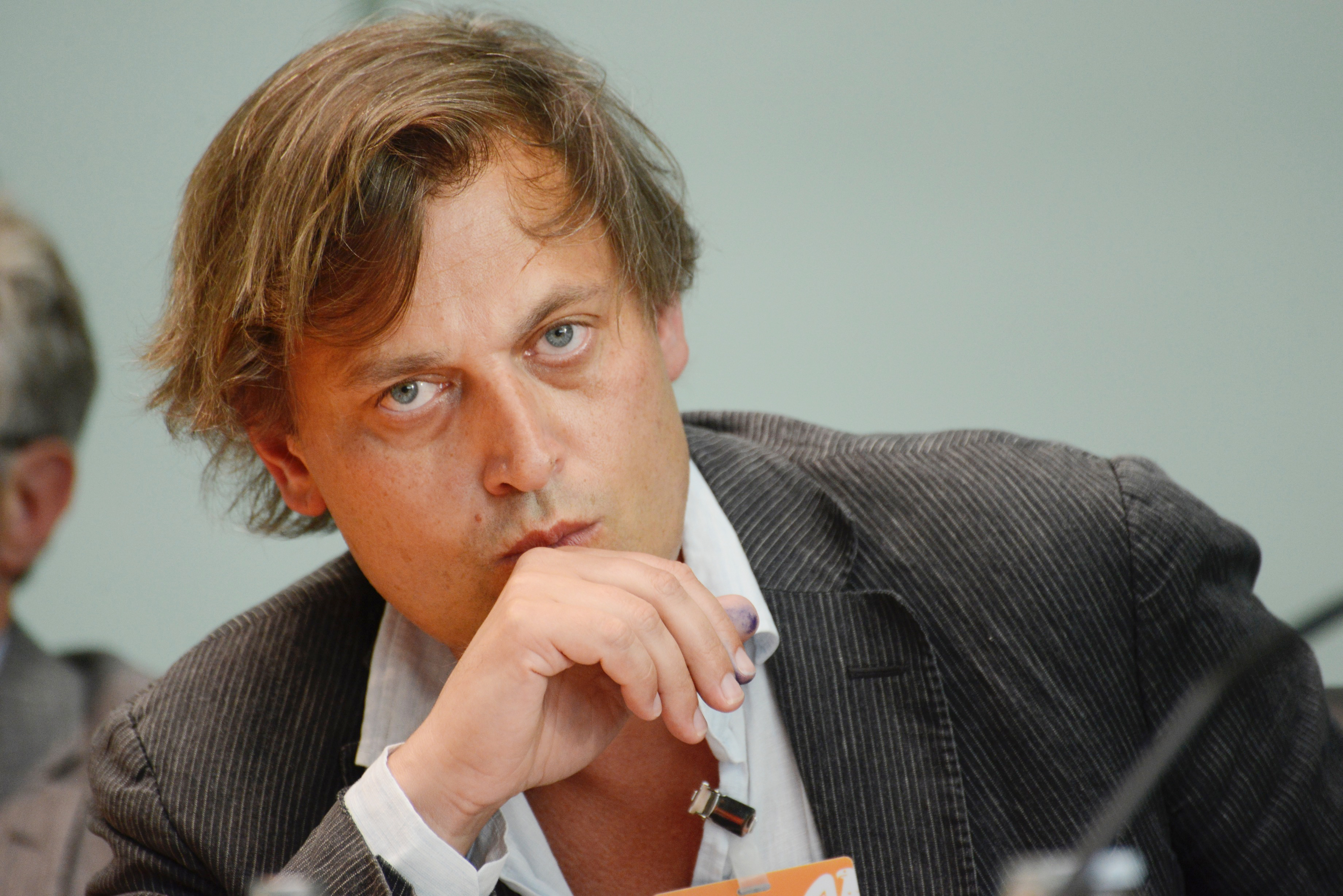 Jurko Prochasko, Ukrainian author